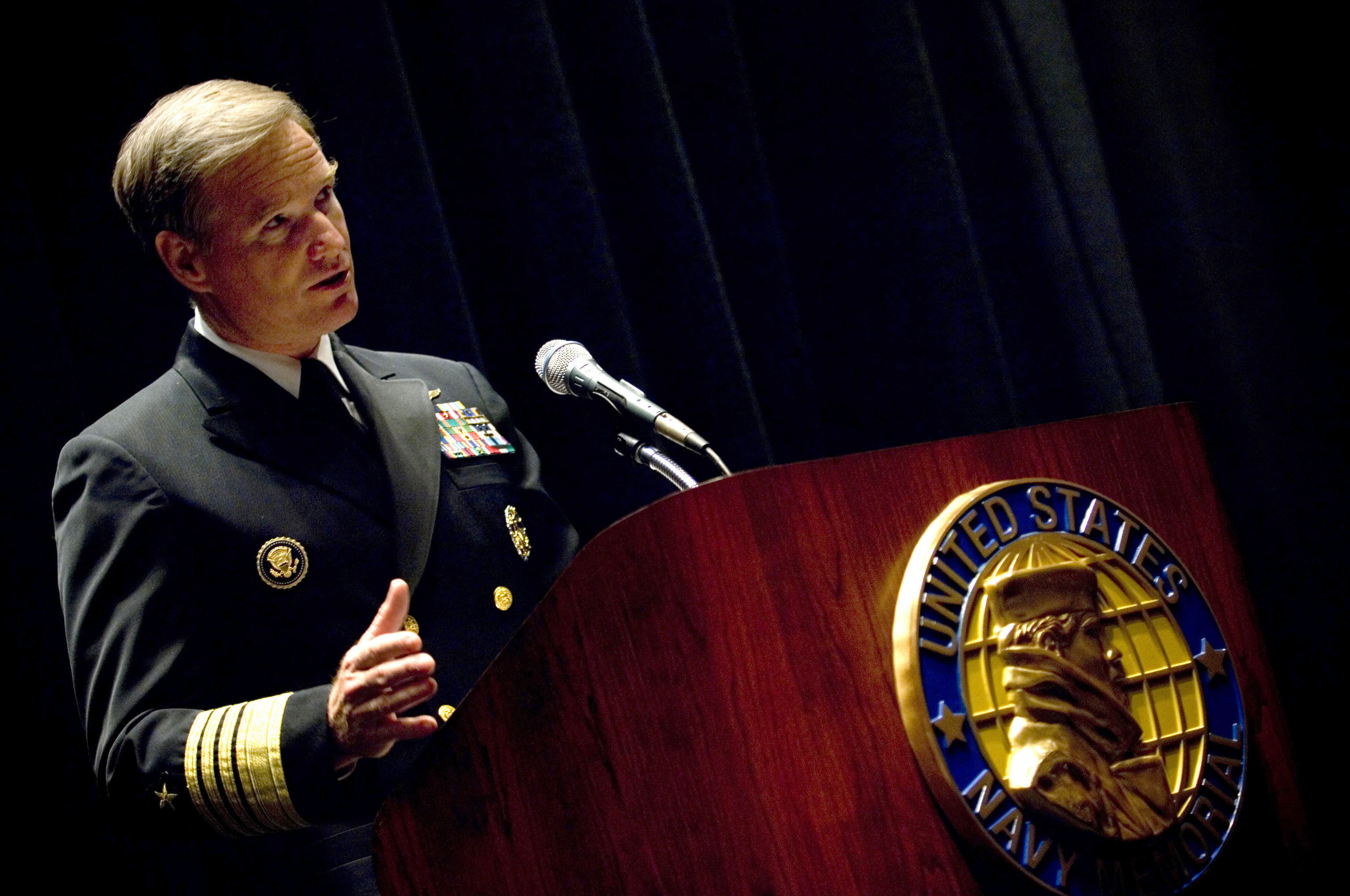 WASHINGTON (Oct. 16, 2007) - Vice Chief of Naval Operations, Adm. Patrick M. Walsh gives his remarks during the 2007 Safety Excellence Awards Ceremony at the Navy Memorial and Naval Heritage Center Theater. U.S. Navy photo by Mass Communication Specialist 2nd Class Kevin S. O’Brien (RELEASED)